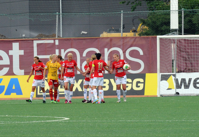 Margrét Lára Viðarsdóttir (right, with ball) takes the plaudits after scoring for Kristianstads in their 5-1 Damallsvenskan defeat to Tyresö